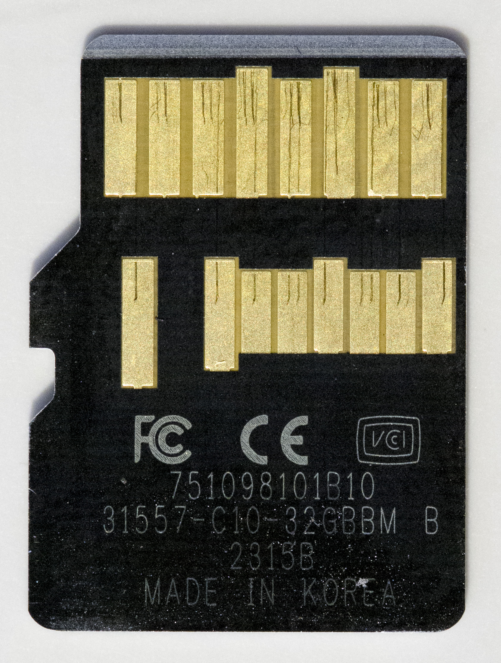 Connector side of an Lexar 1000x MicroSDHC UHS-II U3 Class 10 showing the specific UHS-II connector